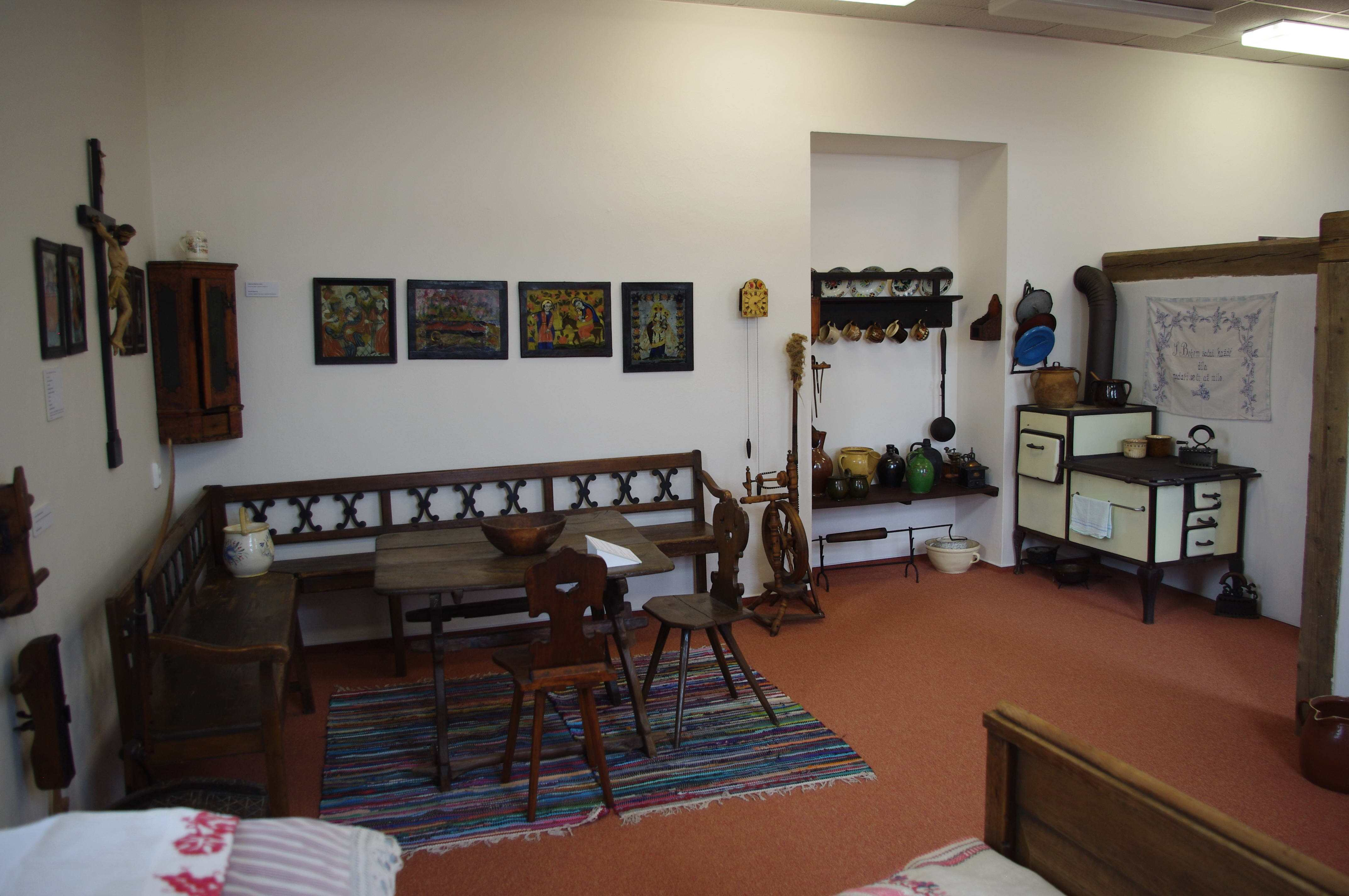 Expozice bydlení v Muzeu Bojkovska